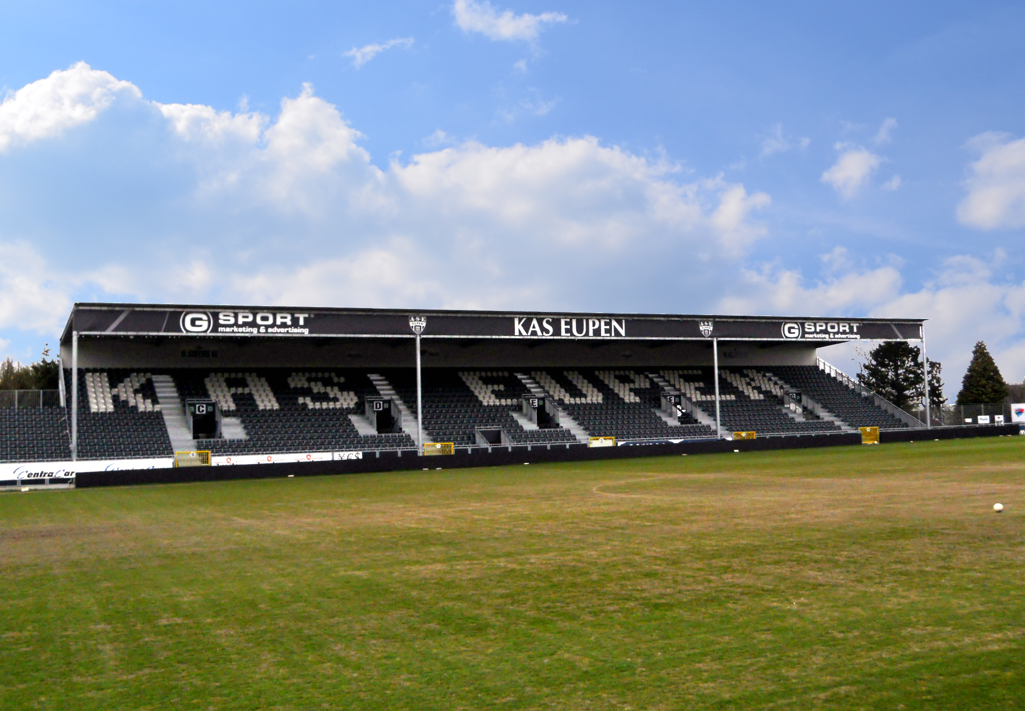 Tribune 3 KAS Eupen